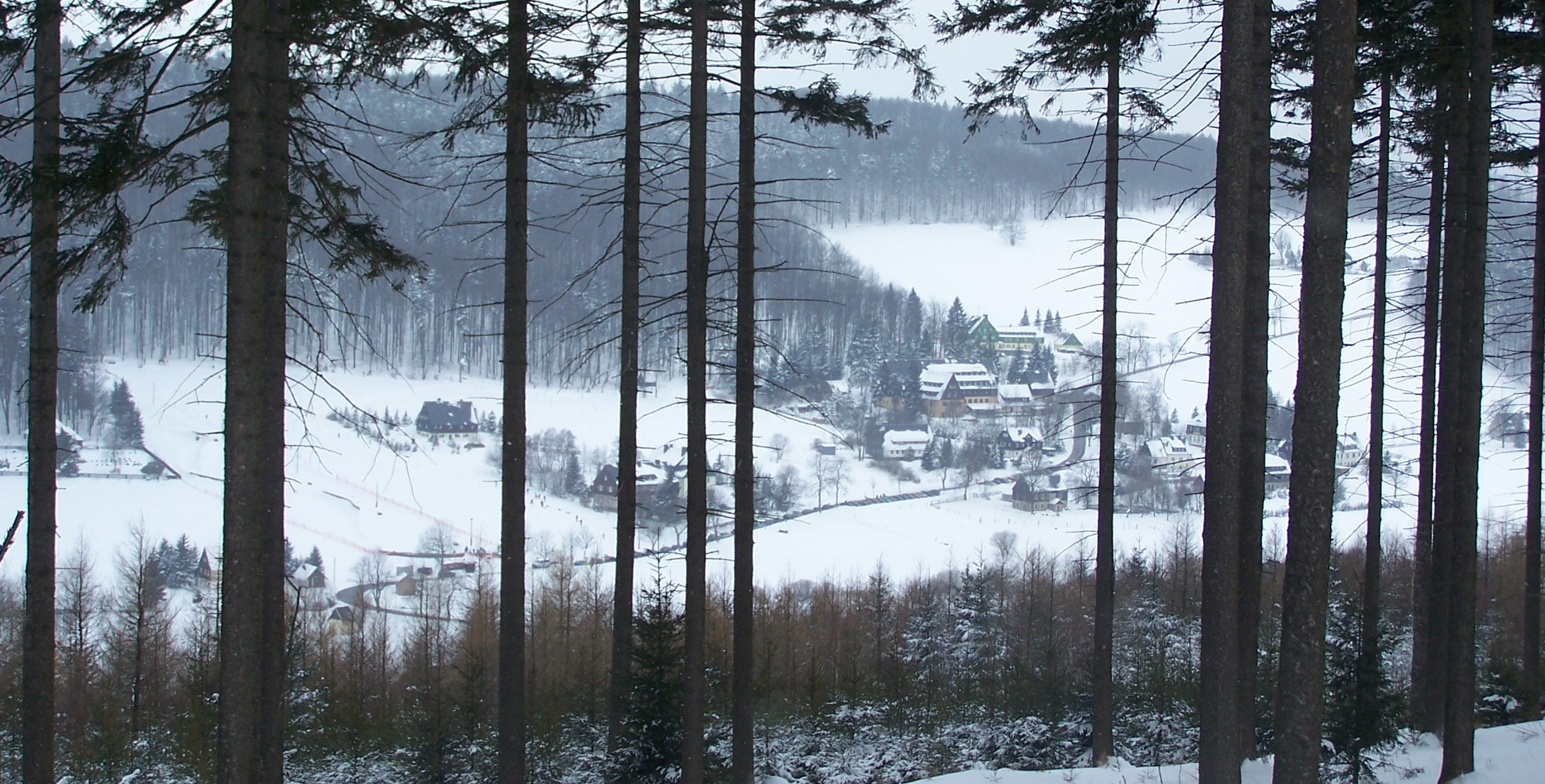 This image shows (a part of) Rehefeld-Zaunhaus in the Ore Mountains in Saxony, Germany.